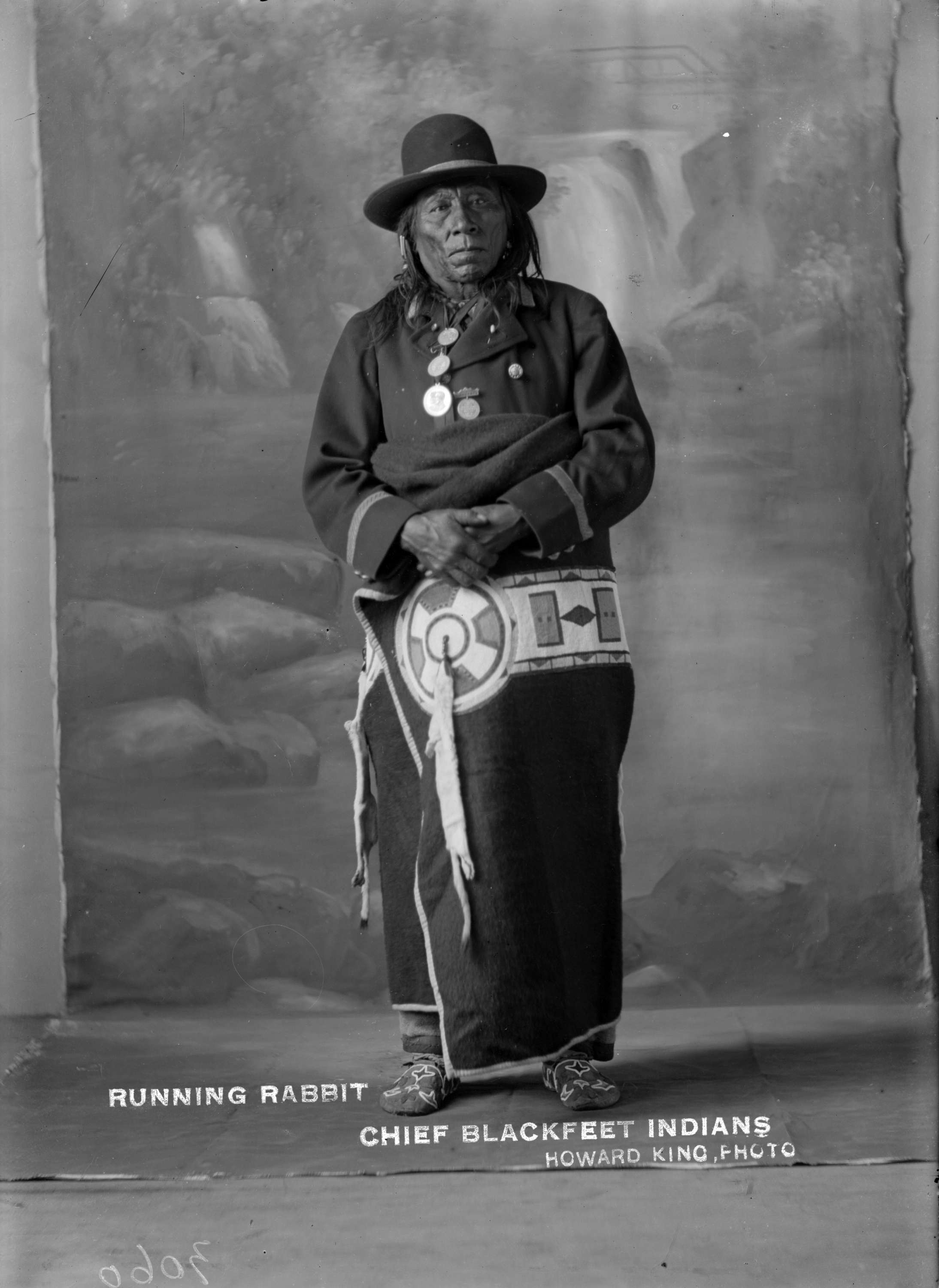 Photo of Chief Running Rabbit (Aatsista-Mahkan) a chief of the Siksika Blackfeet Indians of Canada and the U.S.A